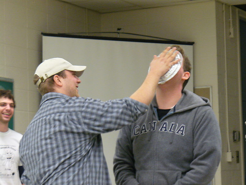 This photo depicts students participating in a pie toss for charity as part of the Pi Day celebrations at Memorial University of Newfoundland in 2008.